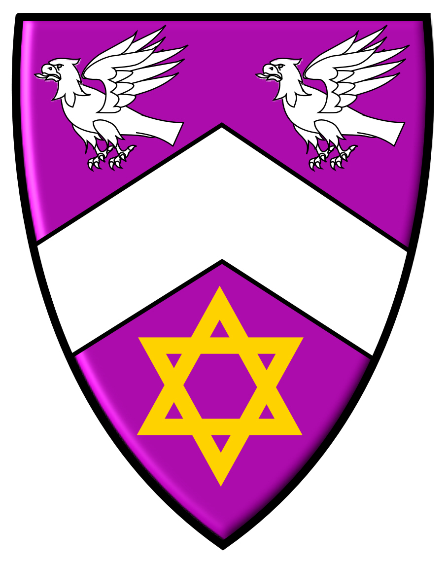 Shield of the Baron of Craigie, Scotland. Shield: Purpure, a chevron between two falcons volant Argent in chief with a Star of David Or in base.